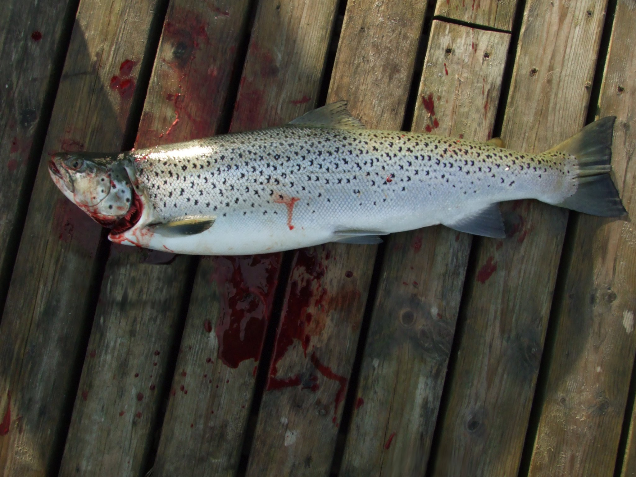 Salmo trutta trutta female, of about 3 kg. The gills have been cut in order to bleed the fish, and the head has been bent slightly backwards. Caught on the coast of Troms, Norway. A small pollock (and a shoe tip) on the picture has been removed using GIMP.